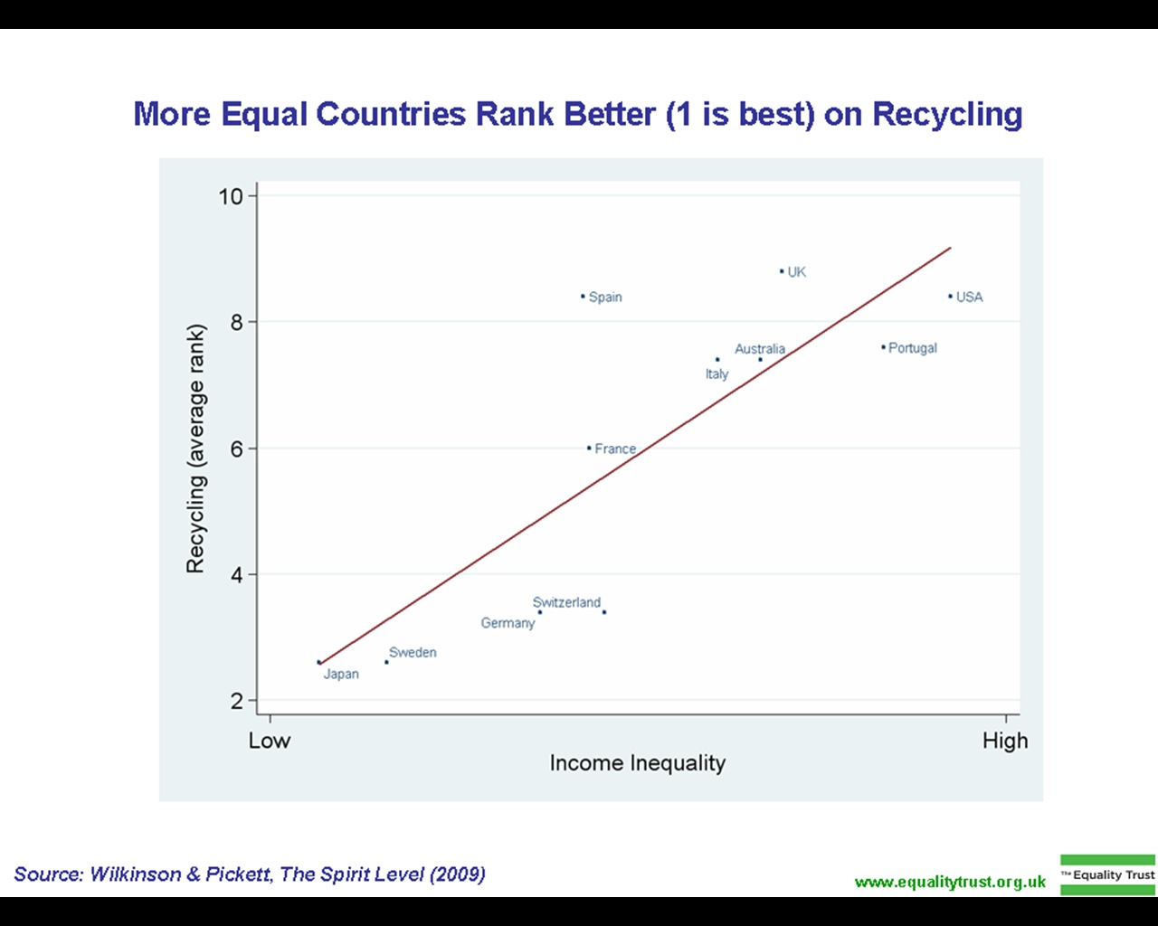 The Spirit Level: Why More Equal Societies Almost Always Do Better.